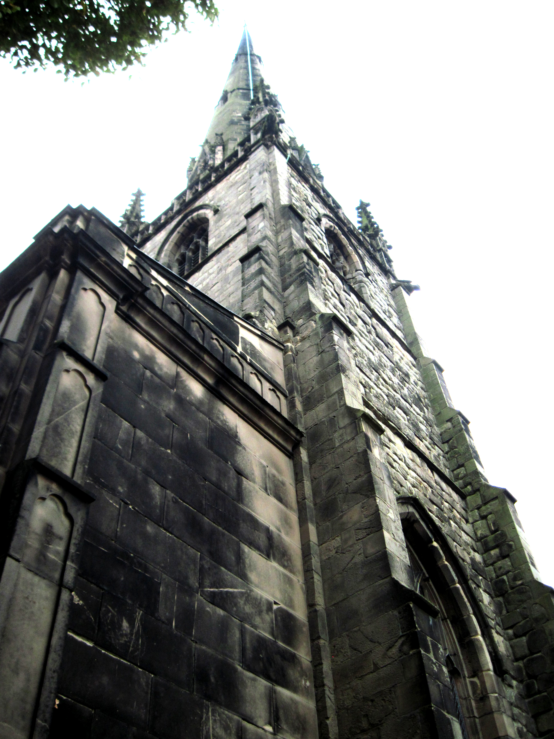 Church of St Alkmund, Shrewsbury Wikidata has entry Q17550400 with data related to this building.